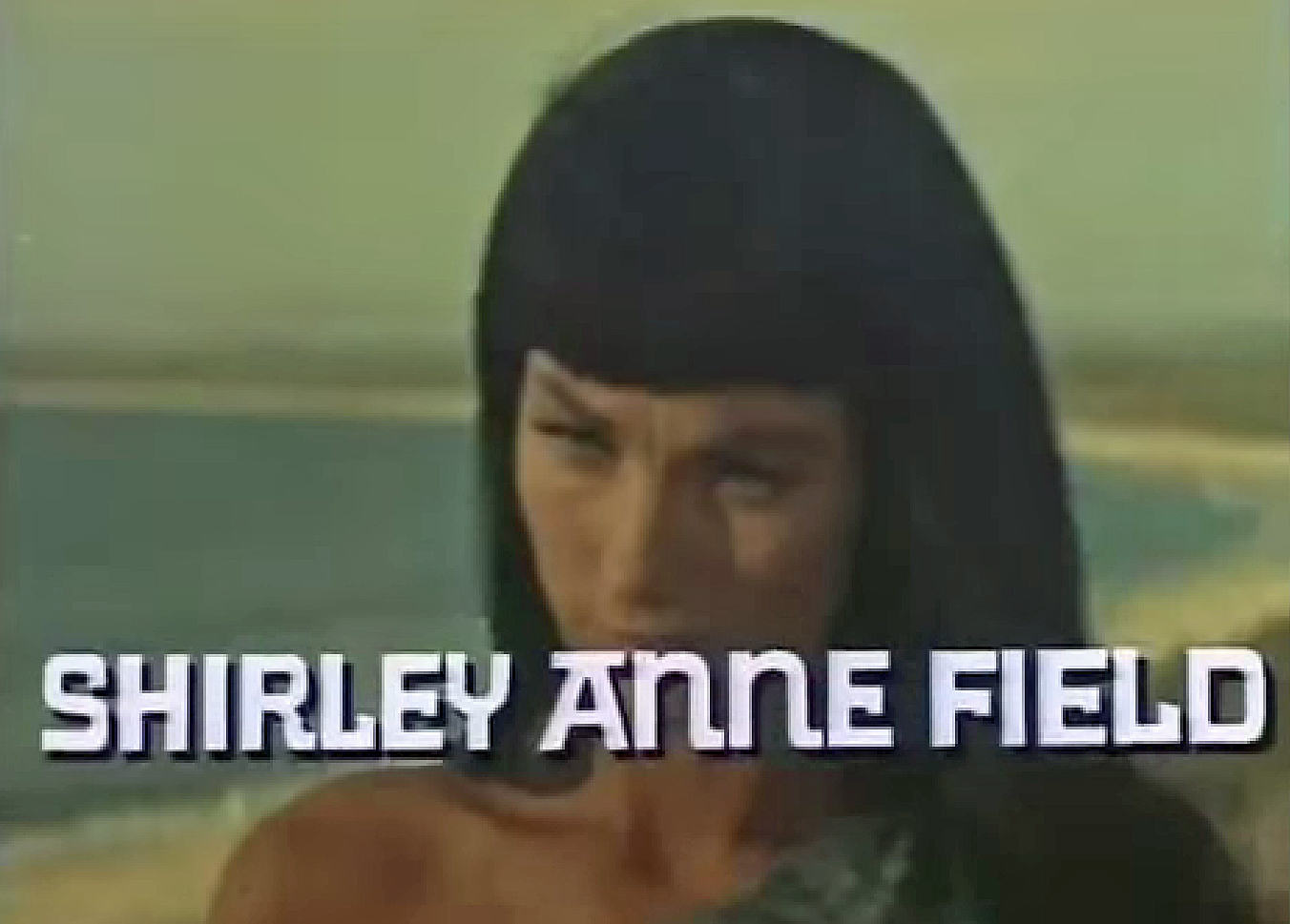 Shirley Anne Field in trailer for Kings of the Sun (1963).